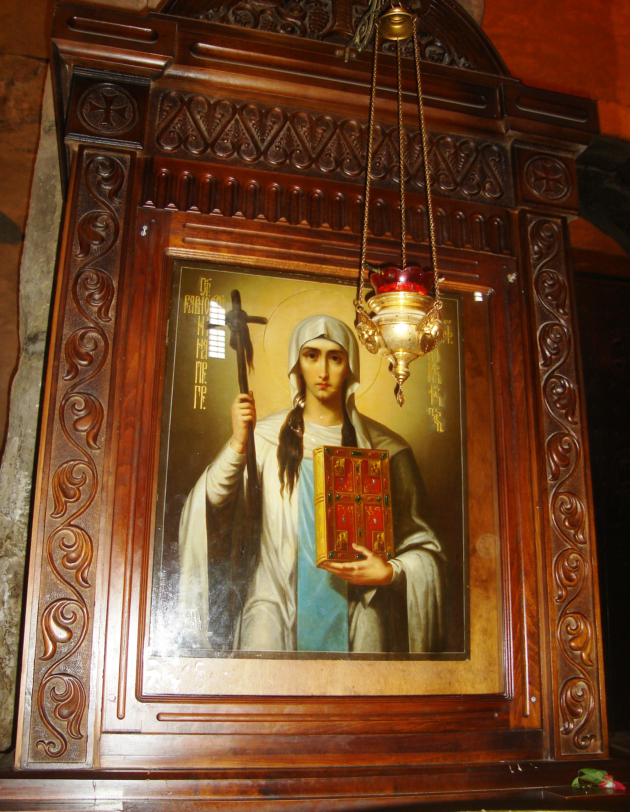 The icon of St. Nino at Svetitskhoveli cathedral, Mtskheta, Georgia